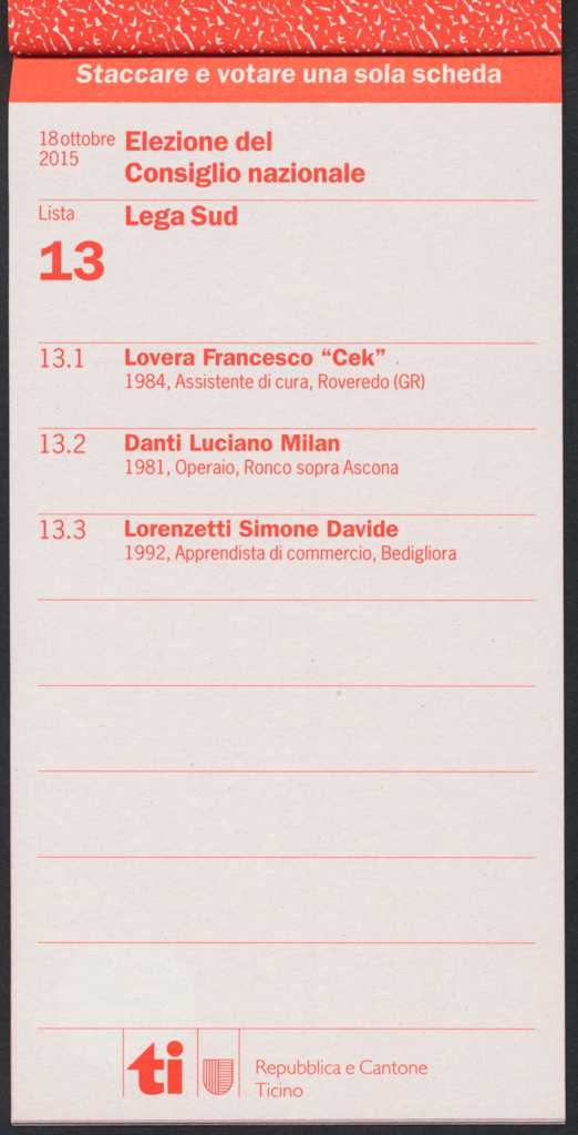 Ballot paper for the 2015 National Council election in the Canton of Ticino.